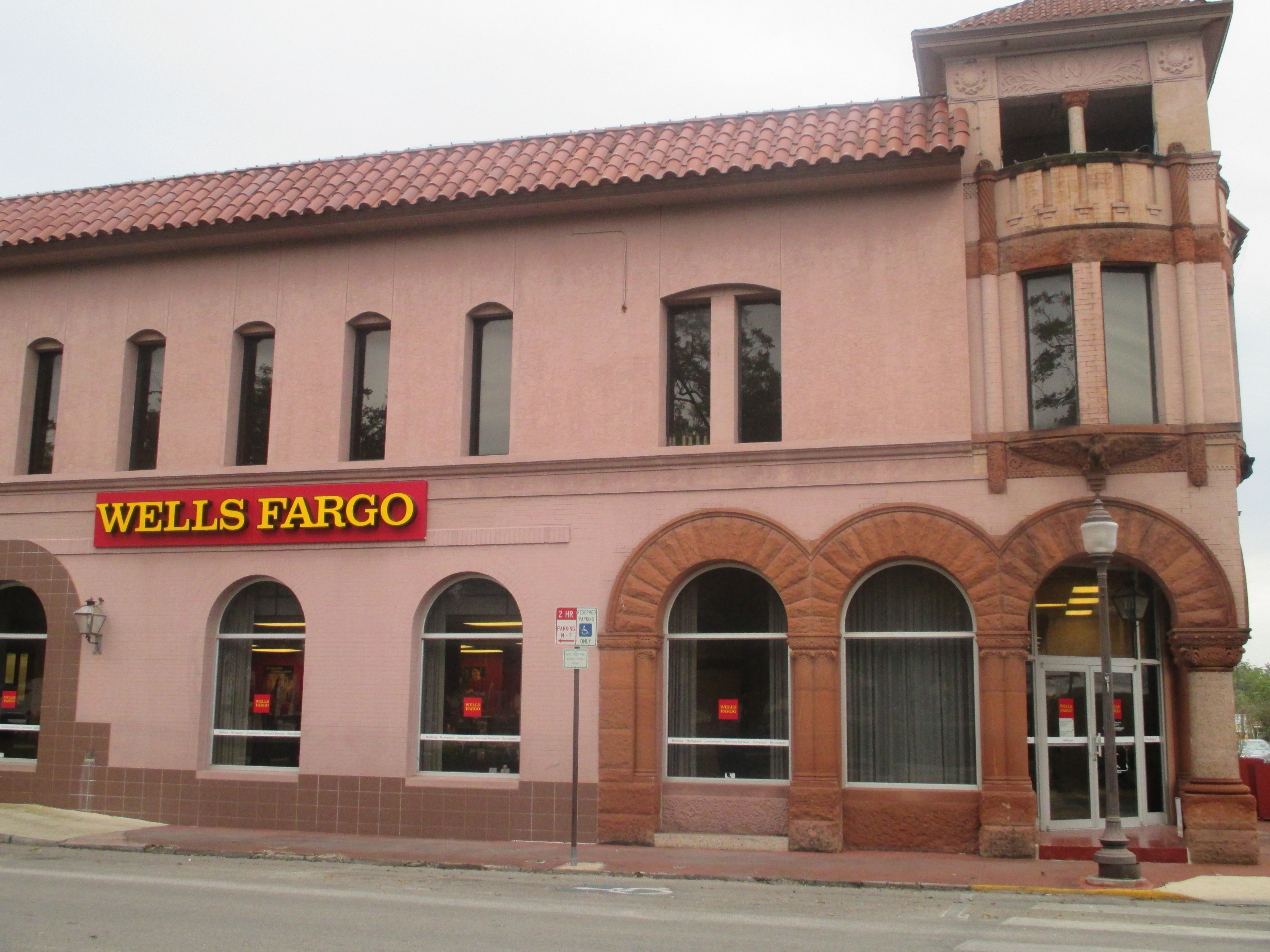 I took photo with Canon camera of Wells, Fargo in Seguin, TX.